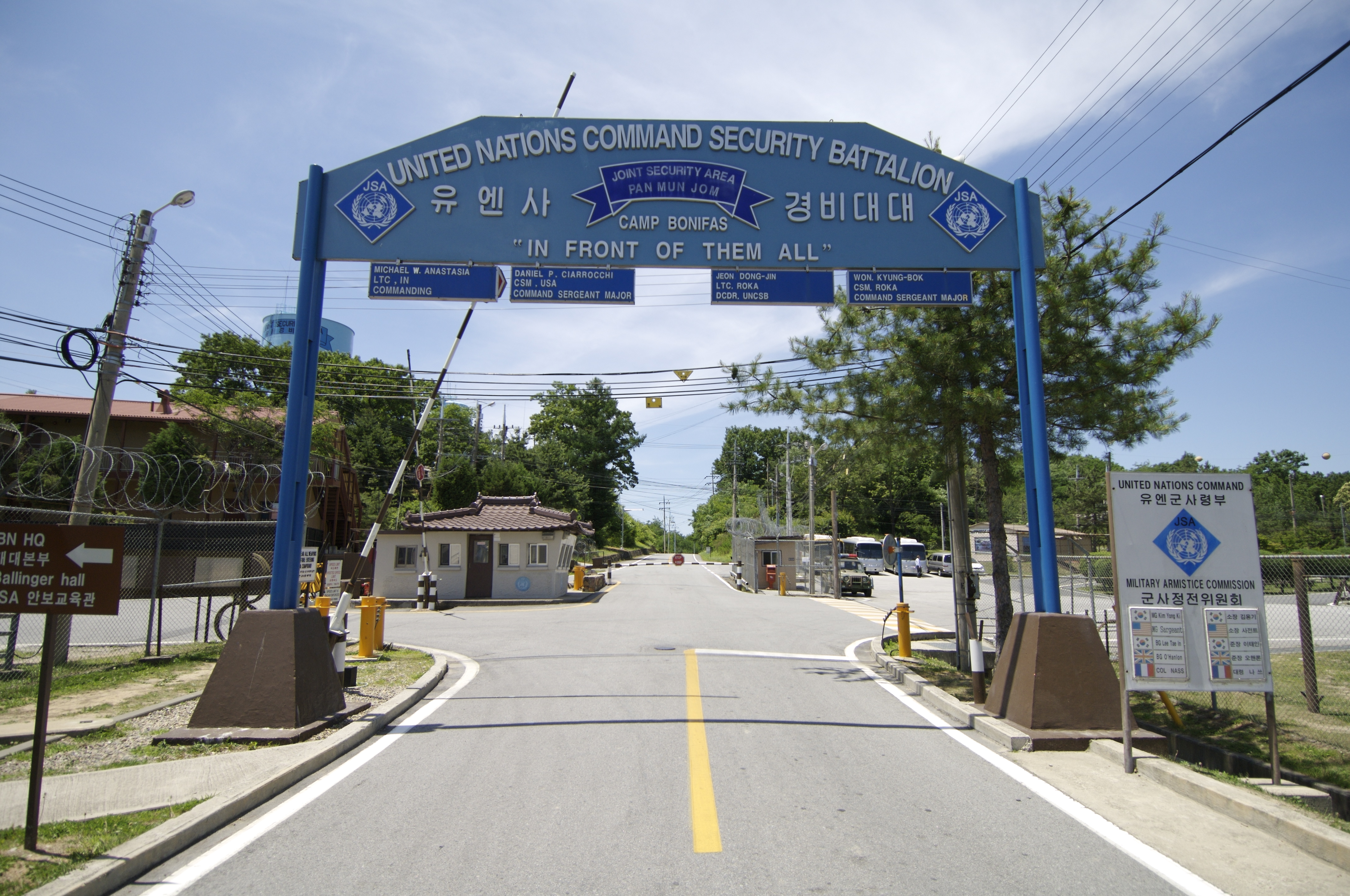 Korean Demilitarized Zone. Camp Bonifas main gate. View from south looking north. Camp Bonifas stands just outside the South Korean Joint Security Area. The road to Panmunjeom is straight ahead. U.S. Army Korea Official DMZ Image Archive